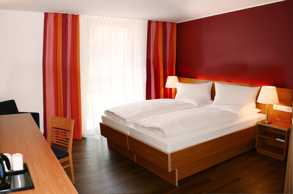 One may see the interior design of the ***-Hotel Franz in Essen, Germany.